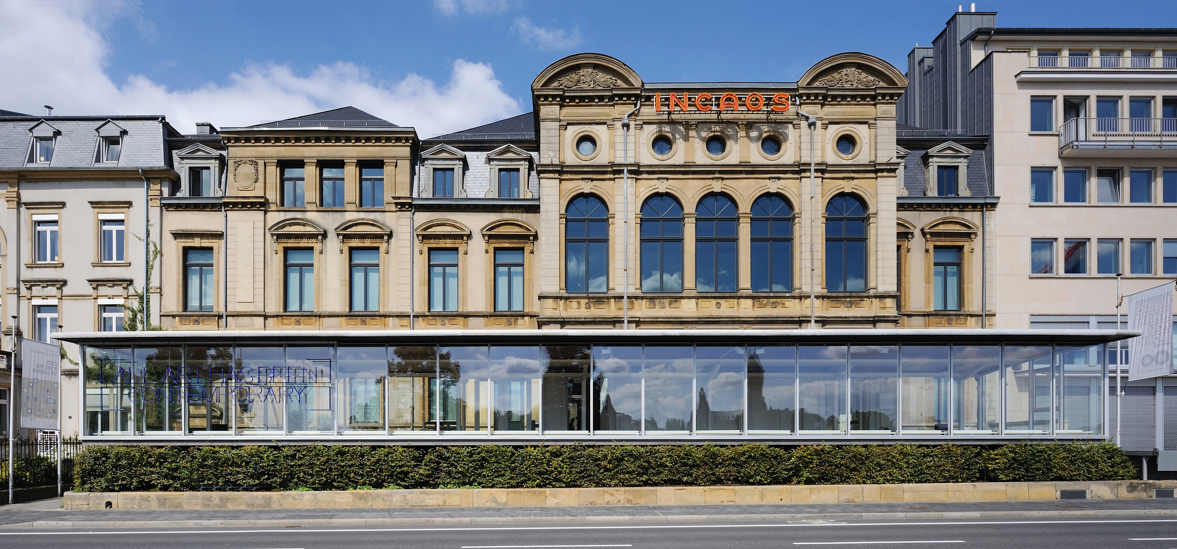 Casino Luxembourg, forum d'art contemporain. Front view, boulevard Roosevelt. See the inversed letters of the word Casino (September 2010). The inversion was done at the occasion of the exposition entitled Casino INCAOS by Bruno Peinado (Sept. 25 2010 - Jan. 9 2011).